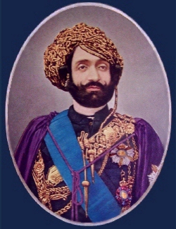 Mohammad Bahadur Khanji III, Nawab of Junagadh, reign 1882 - 1892